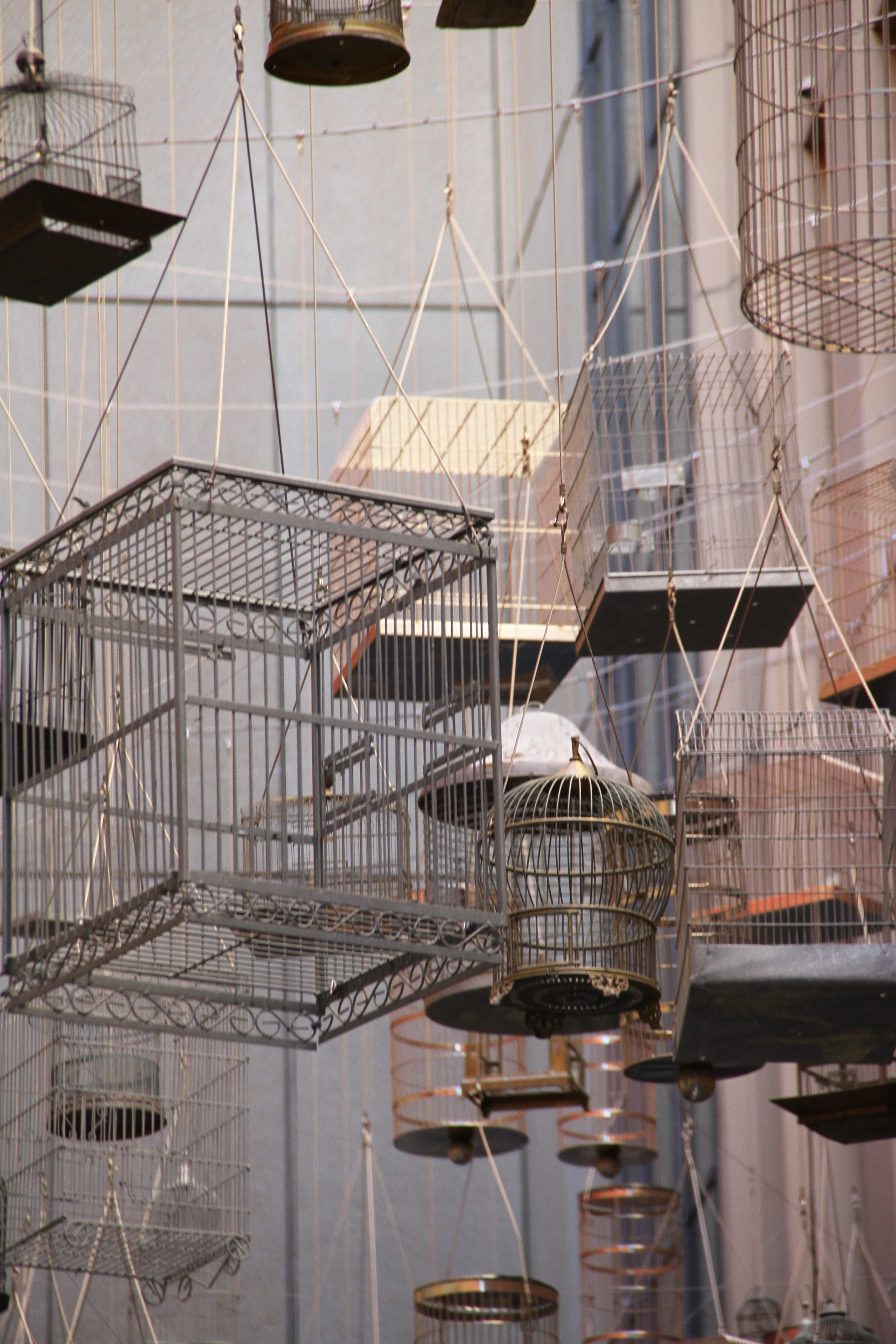 Forgotten Songs artwork, 120 various birdcages accompanied by birds sounds, Angel Place, Sydney, Australia, Aug 2016 .jpg